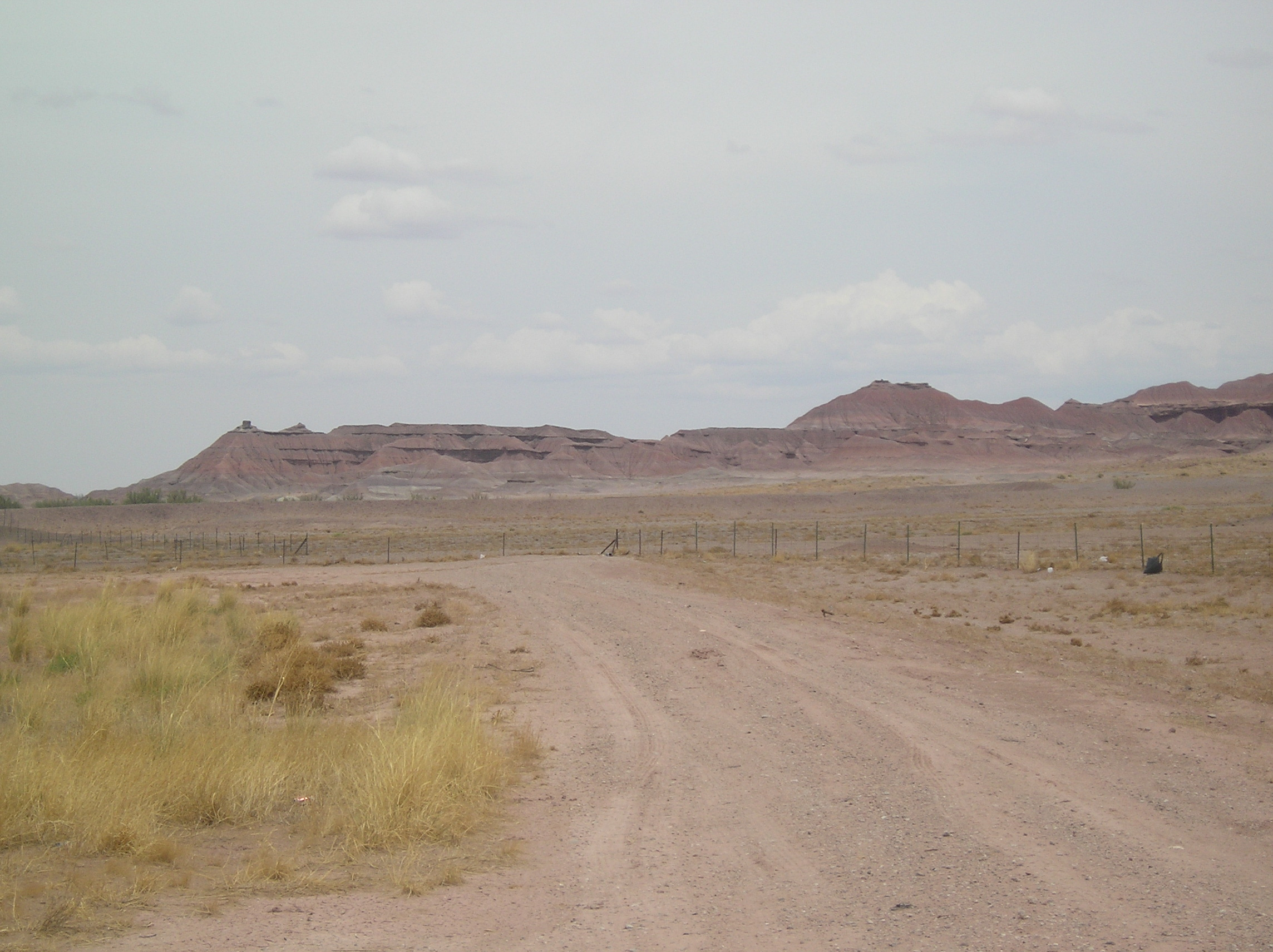 Dirt Road ind Painted Desert, Arizona